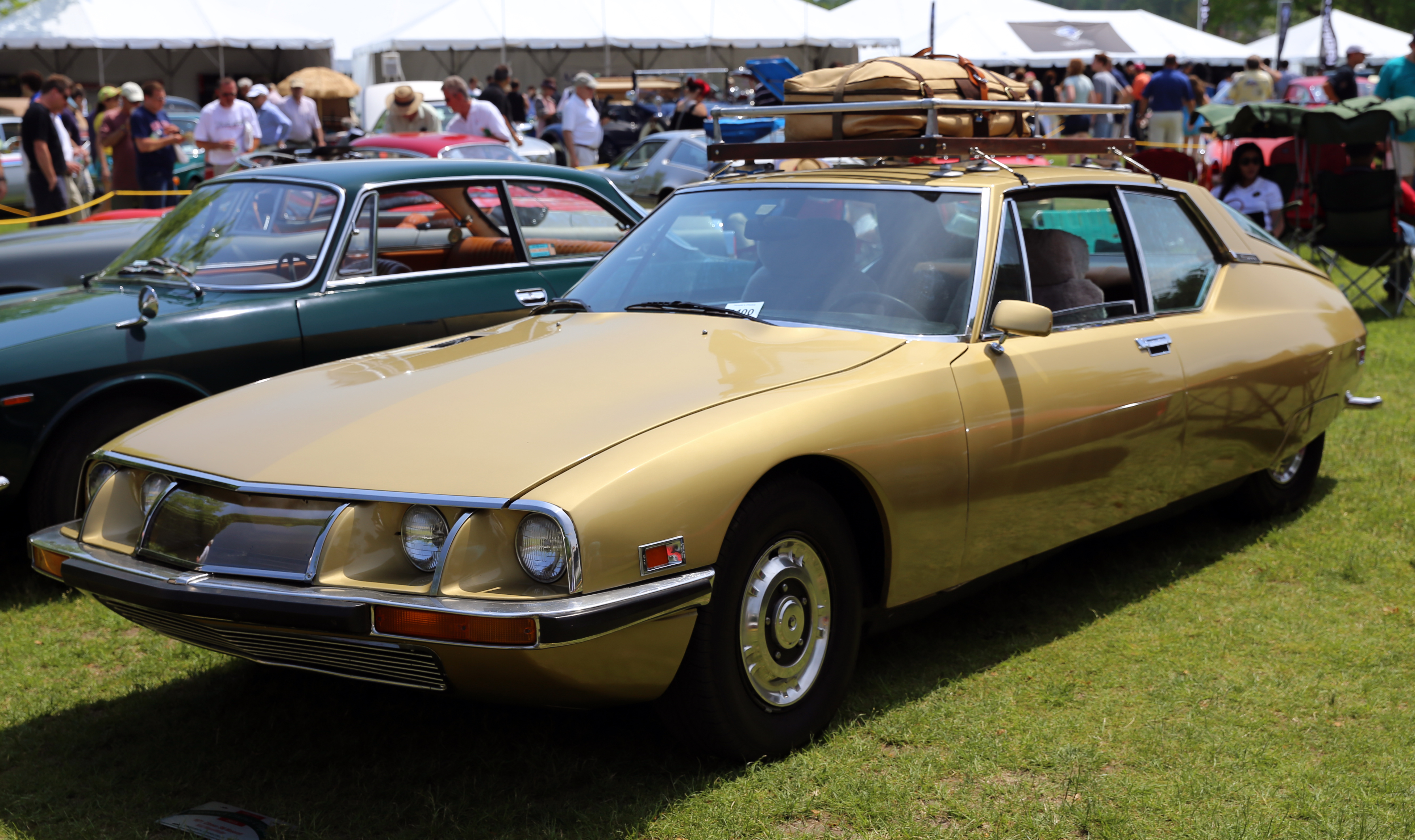 1971 Citroën SM at the 2013 Greenwich Concours d'Elegance.